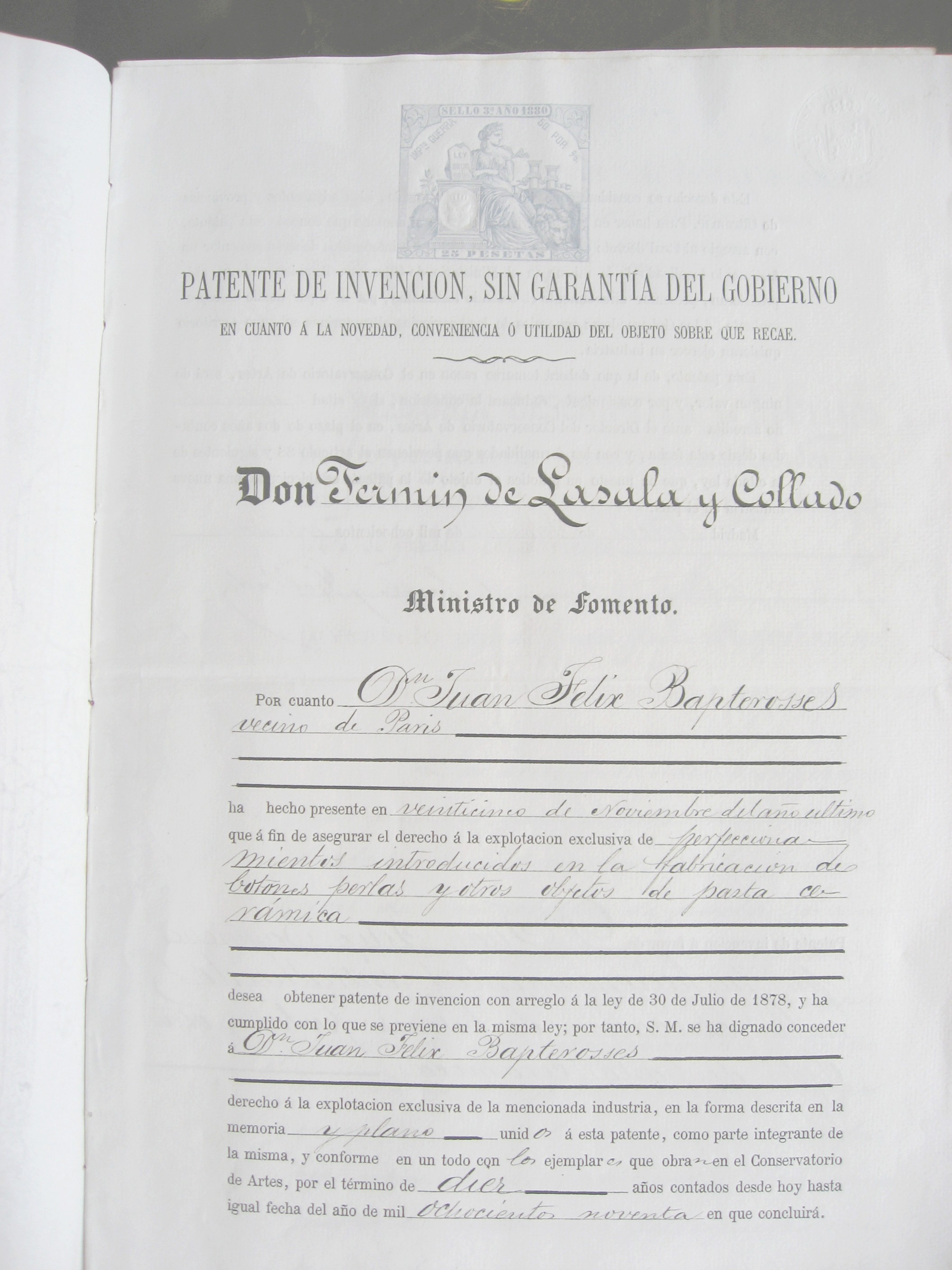 Invention Patent for Jean-Félix Bapterosses in Spain (10 years patent)